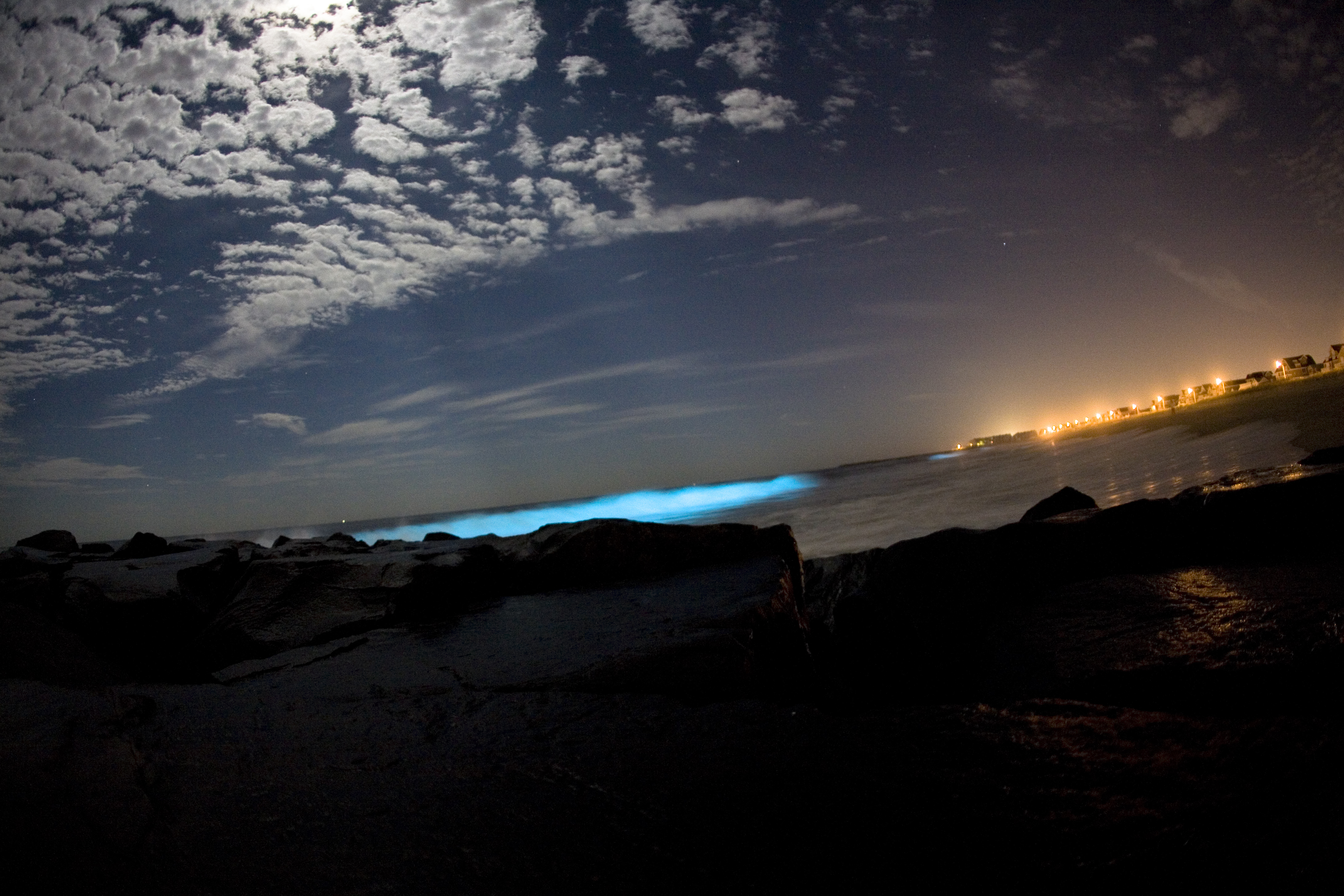 bioluminescent dinoflagellates producing light in breaking waves